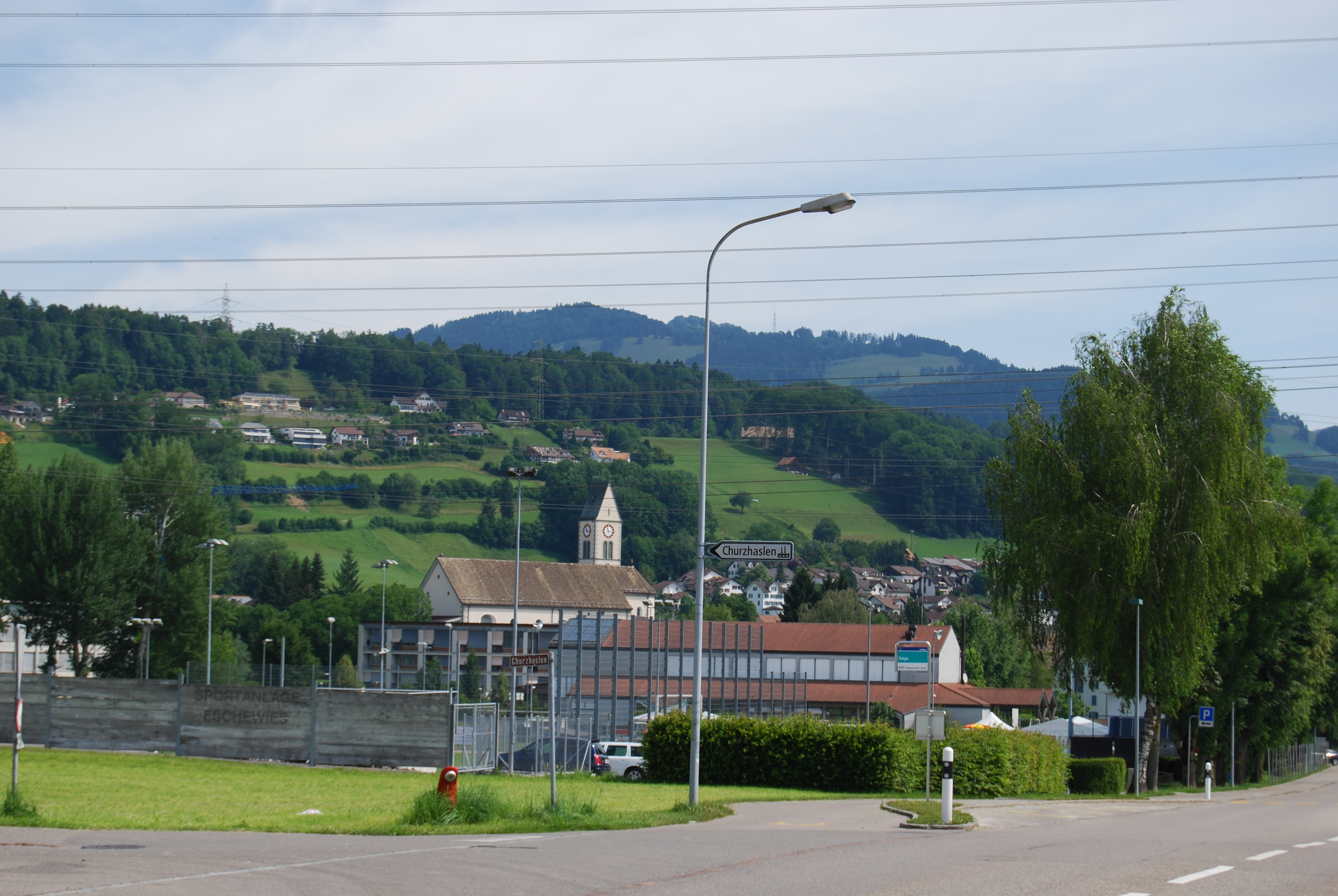 Eschenbach, canton of St. Gallen, SwitzerlandEsperanto: Eschenbach, Kantono Sankt-Galo, Svislando